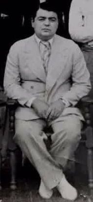 First from left is Mr. Fazal Ahmed Ghazi and Qazi Essa Mohammad is in the Center